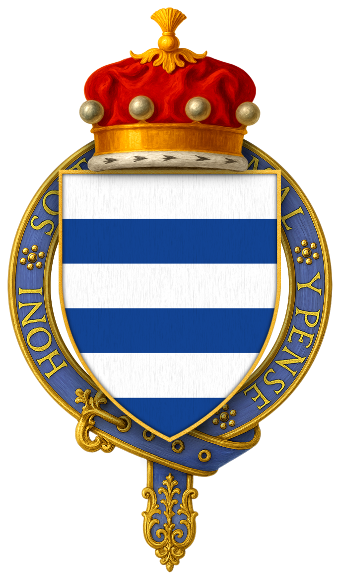 Coat of Arms of Sir Richard Grey, 4th Baron Grey of Codnor, KG HOPE, W. H. St. John, ‘’The Stall Plates of the Knights of the Order of the Garter 1348 – 1485: A Series of Ninety Full-Sized Coloured Facsimiles with Descriptive Notes and Historical Introductions,’’ Westminster: Archibald Constable and Company LTD, 1901. “Sir Richard Grey, Lord Grey of Codnor, K.G. 1404-1418... the arms, barry of six silver and azure...” Lord Grey's stall plate remains in place within the twentieth stall on the Prince's side of St. George's Chapel.